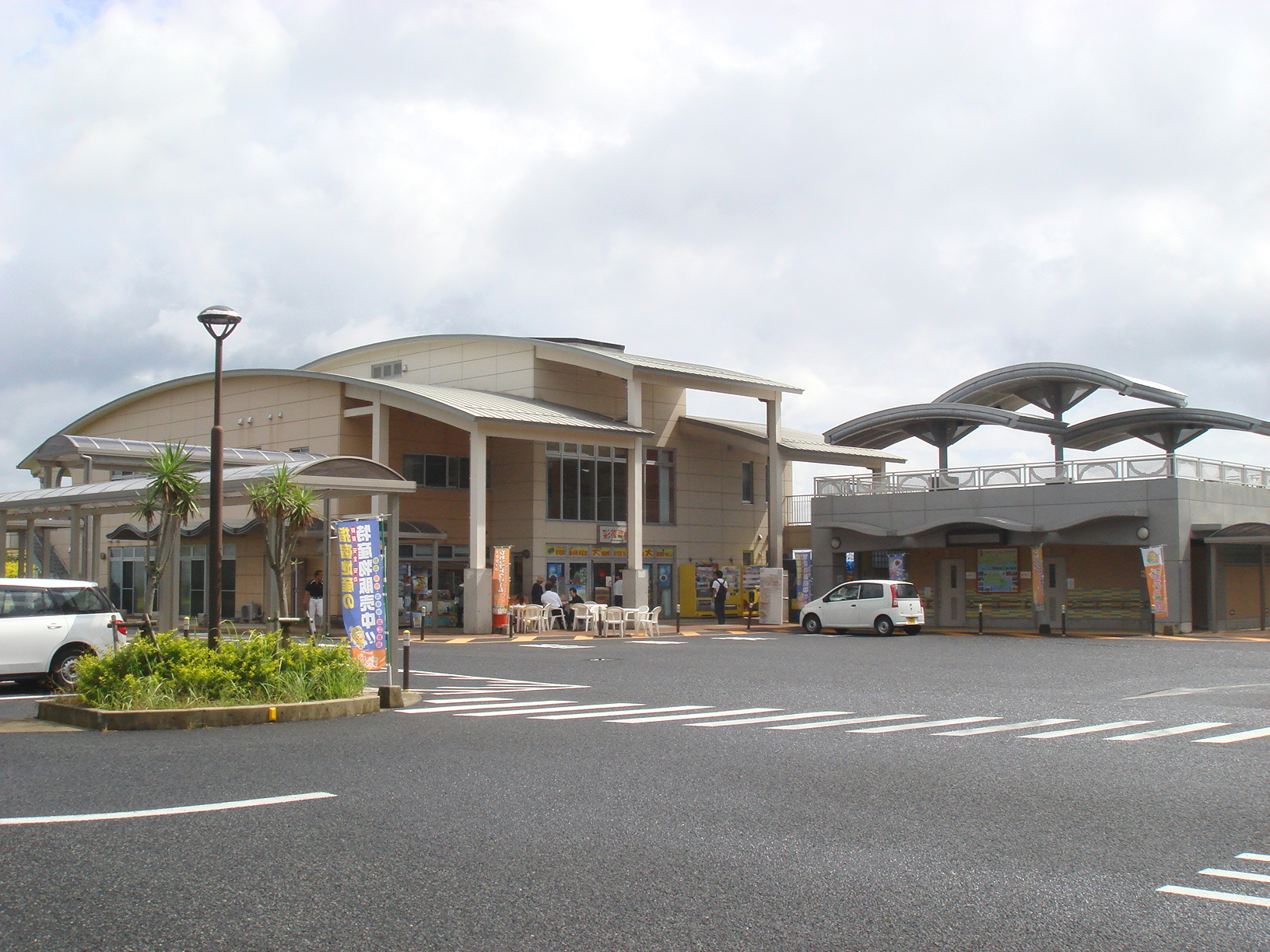 Michinoeki-Ibusuki (Ibusuki, Kagoshima)